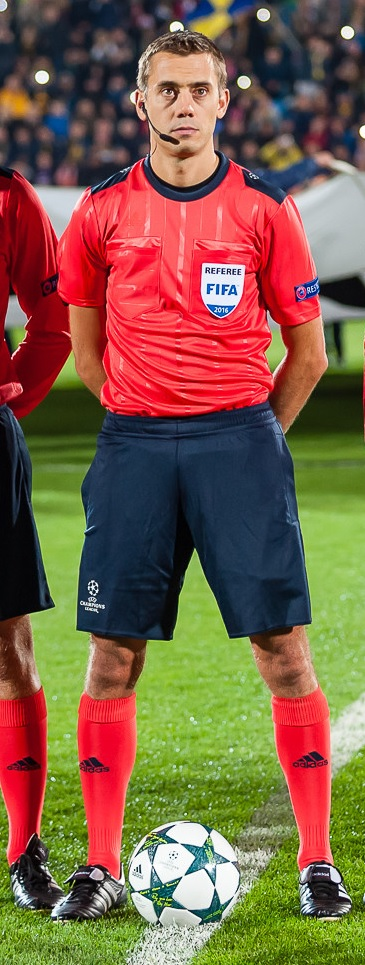 Clément Turpin refereeing the game between FC Rostov and PSV Eindhoven.